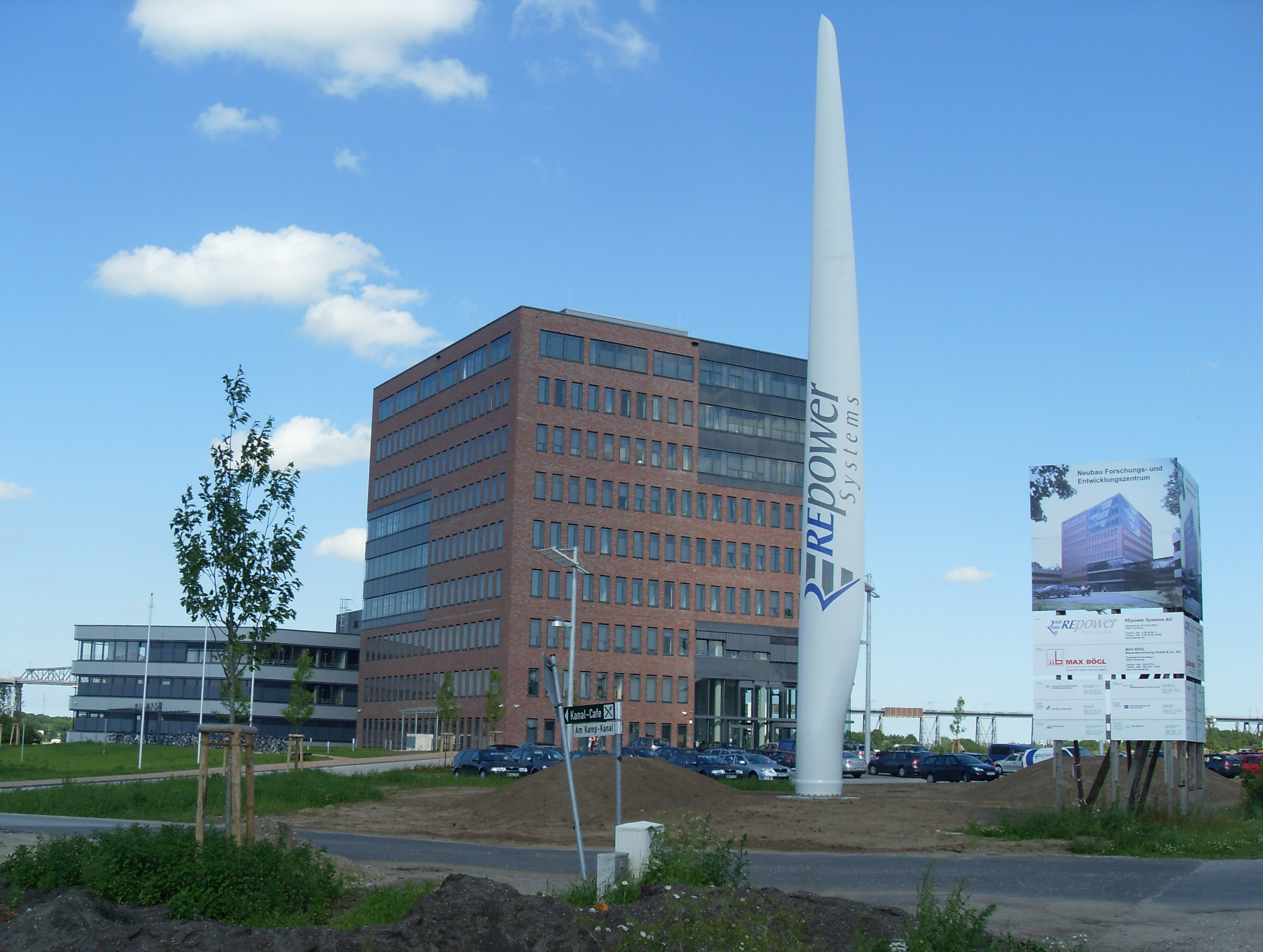 Main entrance of the REpower administrative building in Osterrönfeld